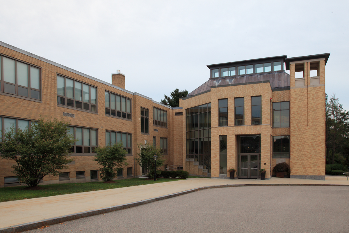 Saint Sebastian's School, Academic Building